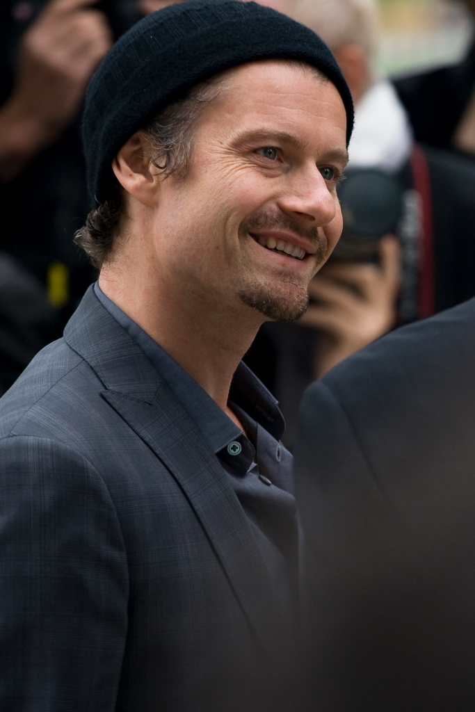 An American actor James Badge Dale at the premiere of "The Conspirator" directed by Robert Redford, during the Toronto International Film Festival, 2010.